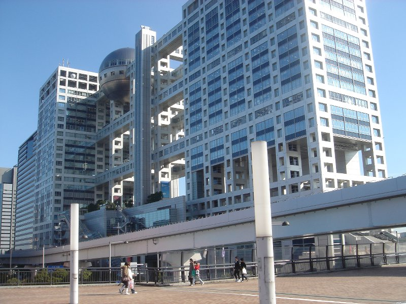 The Fuji TV building was featured in Digimon Adventure (all five series of Digimon were broadcast through Fuji TV). Myotismon uses the station as the source of his power to create a fog bank that cuts Odaiba off from the rest of the world. In a major battle on the roof of the building, Wizardmon is killed, which ultimately brought to Myotismon's own demise. In Digimon Adventure 02, the television station is haunted by Wizardmon's ghost. Hiroaki Ishida, the father of main characters Yamato Ishida and Takeru Takaishi, actually works in the station itself